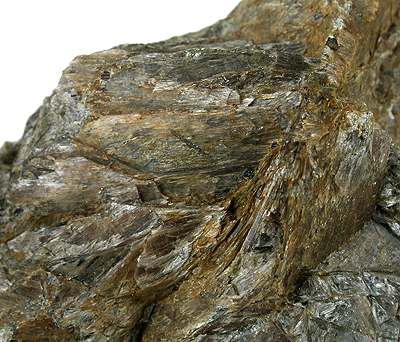 Enstatite Locality: Bare Hills Copper Mine (Smith Avenue Copper Mine), Bare Hills, Baltimore County, Maryland, USA (Locality at ) Size: cabinet, 9.6 x 7.5 x 4.9 cm Enstatite var. Bronzite A classic from a very old American locality that is a varietal of enstatite but apparently still a valid species as I read it. Note the curving, bronzy," well-defined crystals. From the noted W.W. Jefferis (1820-1906) Collection. According to MINDAT, this was a "copper mine located about 1 mile NW of Mt Washington and about 3 miles NW of Baltimore. Started 1845 and closed 1880. Reopened during the period 1905." Jefferis handling of the specimen would have been from the heyday of the mine, in the mid 1800s. Note the early museum accession number 6846, as well. This is a big, somewhat showy, display-worthy specimen from a long-vanished locality, proably under a building for 100 years now.